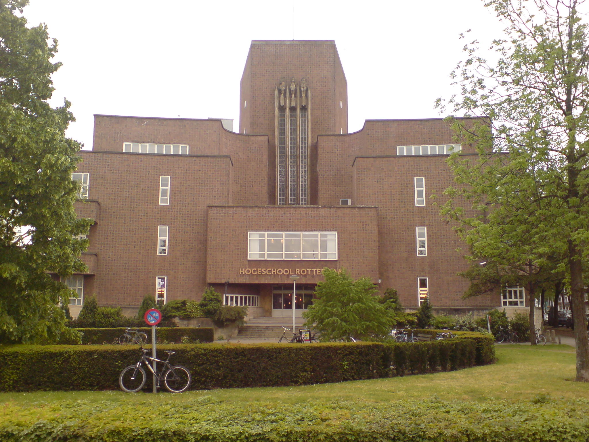 The main building of the Hogeschool Rotterdam at Museumpark, Rotterdam, the Netherlands. Former office building of Unilever.